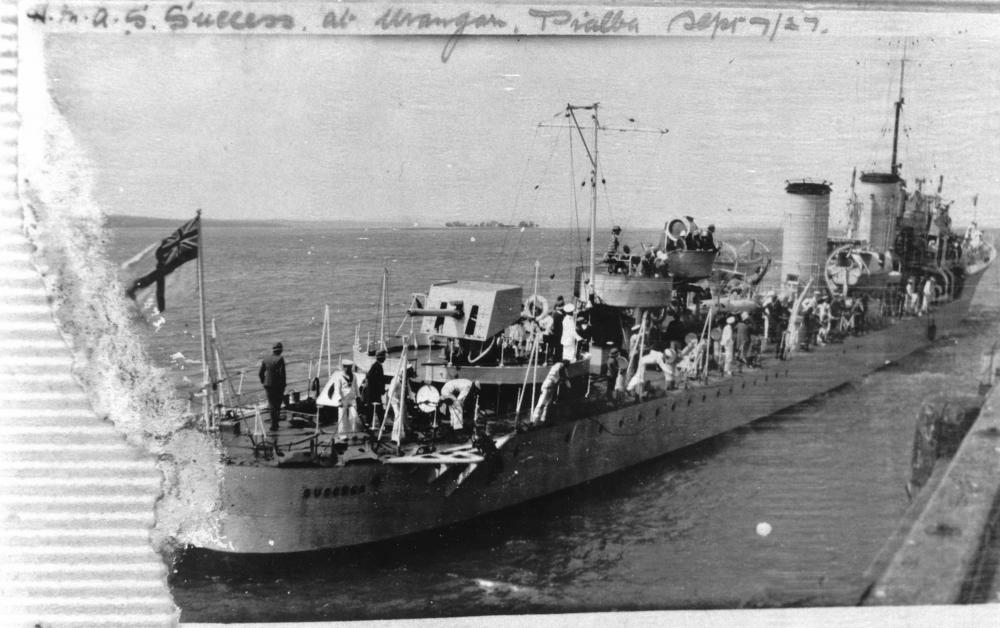 Success (ship) H.M.A.S. Success at Urangan, Pialba. (Description supplied with photograph.).